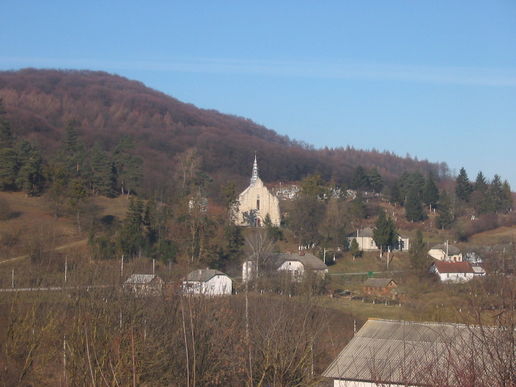 Pidvysoke, Berezhany district, Ternopil region, western Ukraine